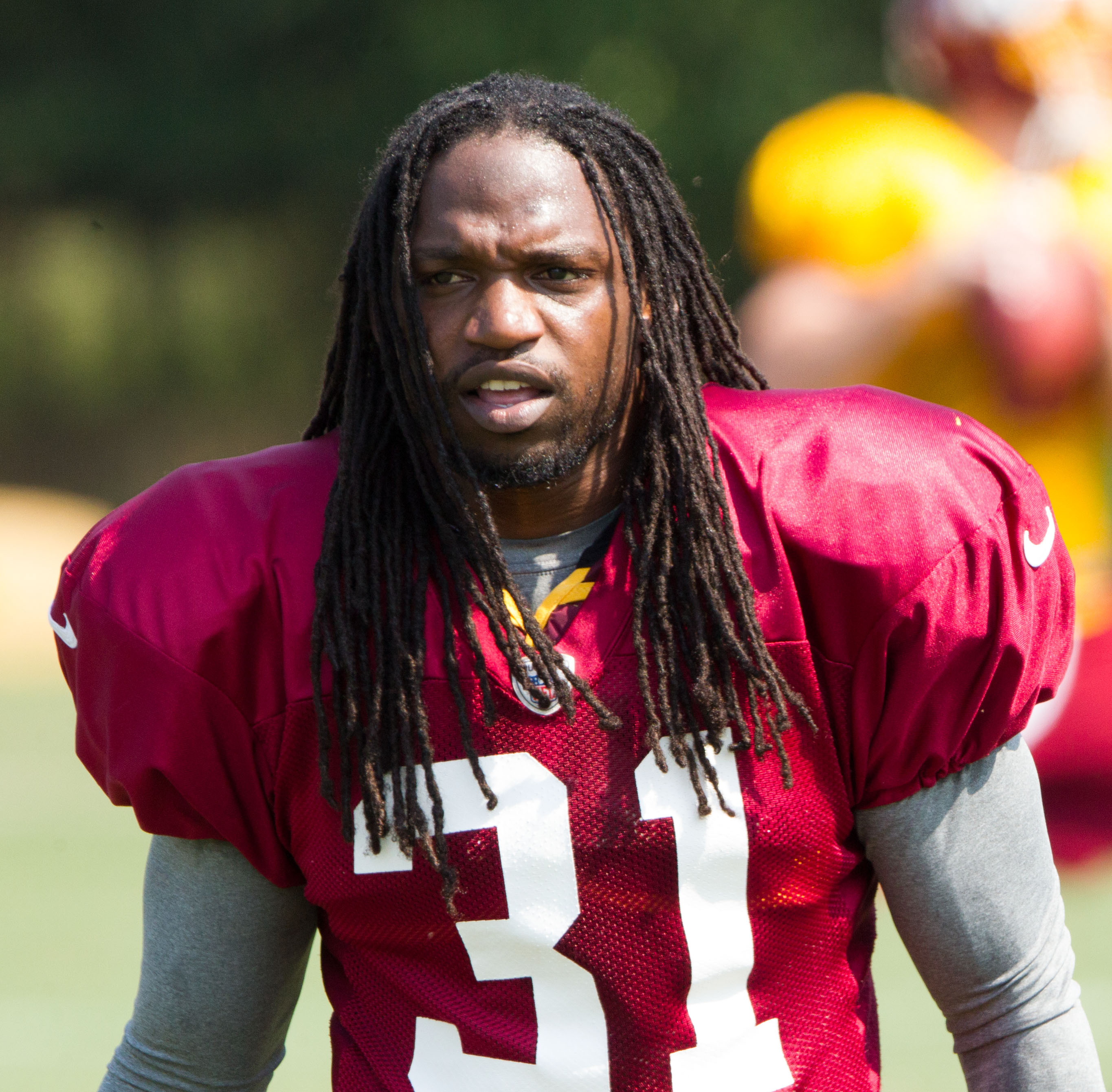 Washington Redskins Training Camp August 1, 2012